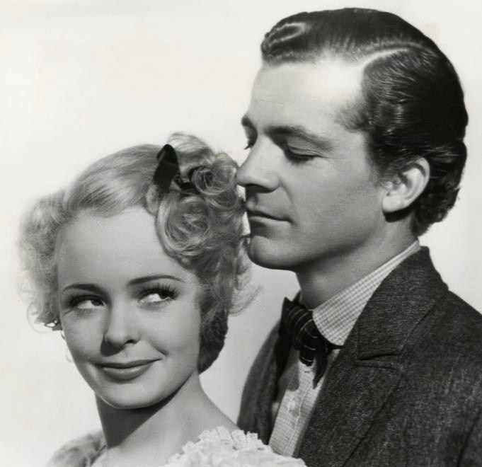 Virginia Gilmore and Dana Andrews in Swamp Water (1941) - publicity still (original image damaged, modified and cropped : see source)